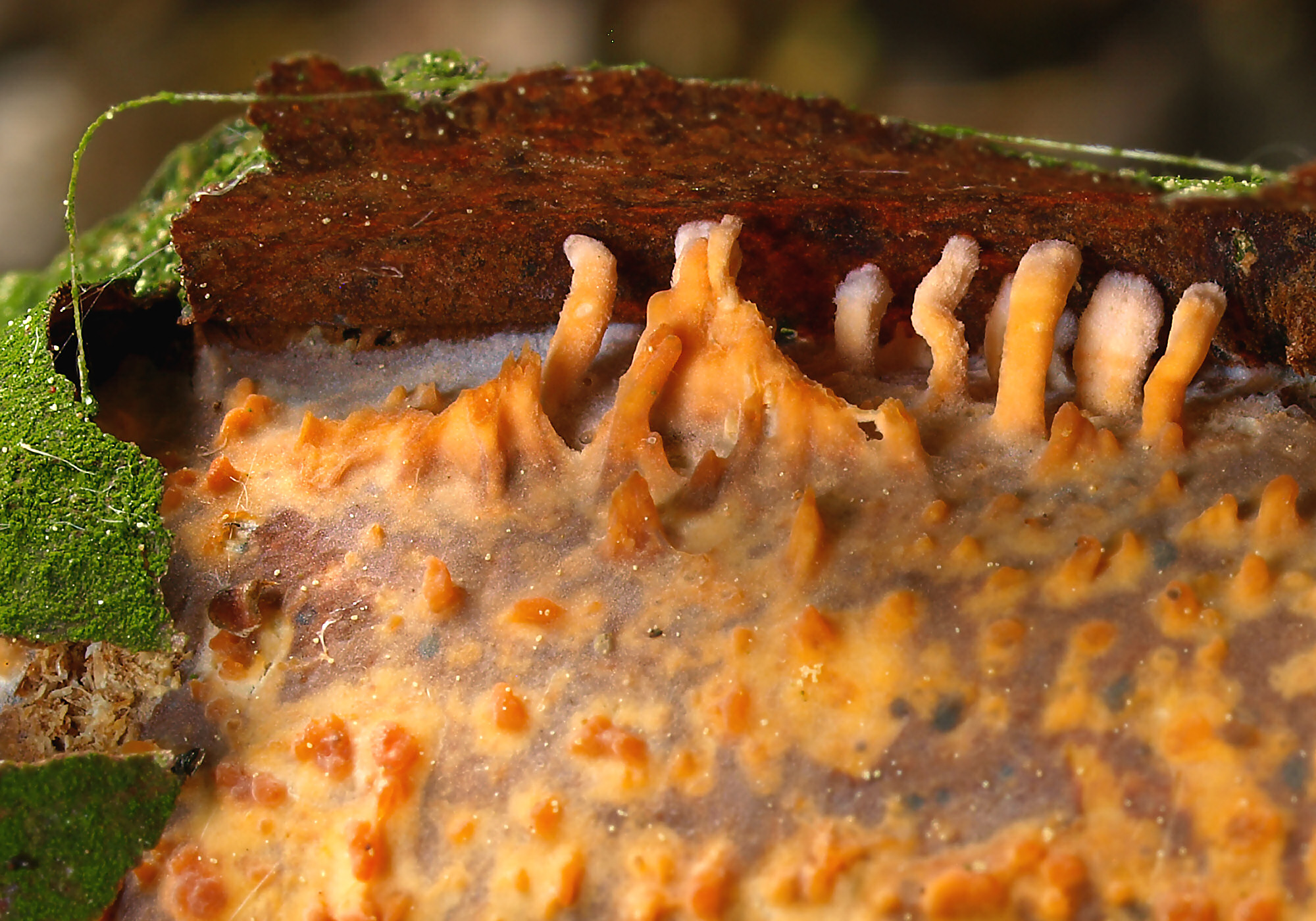 Peniophora laeta on Carpinus betulus. Hurlach.